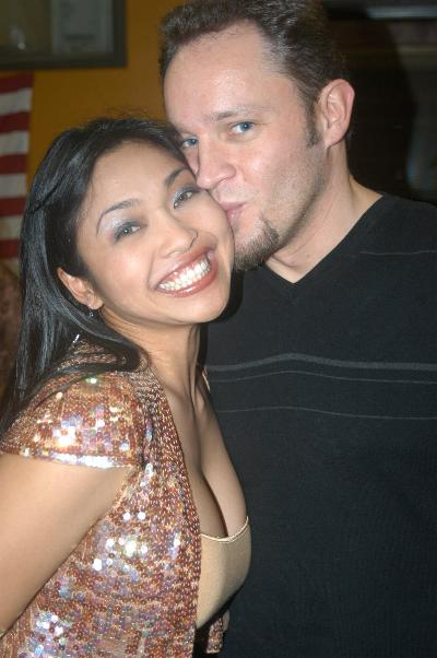 Mika Tan (left) and Alec Knight at KSEXradio Listener Choice Awards 2005